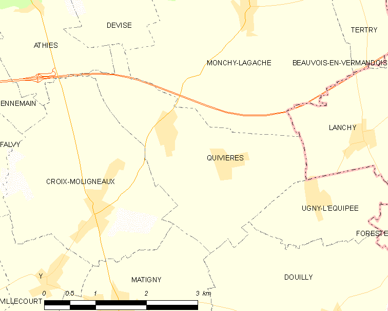 Map of French municipality Quivières